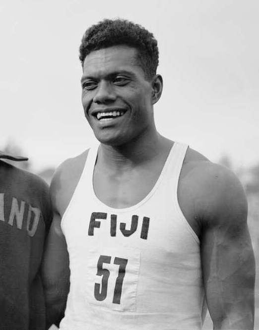 Winners of the men's shotput event at the 1950 British Empire Games, one from England, the other from Fiji. Photograph taken in February 1950 by an Evening Post photographer.